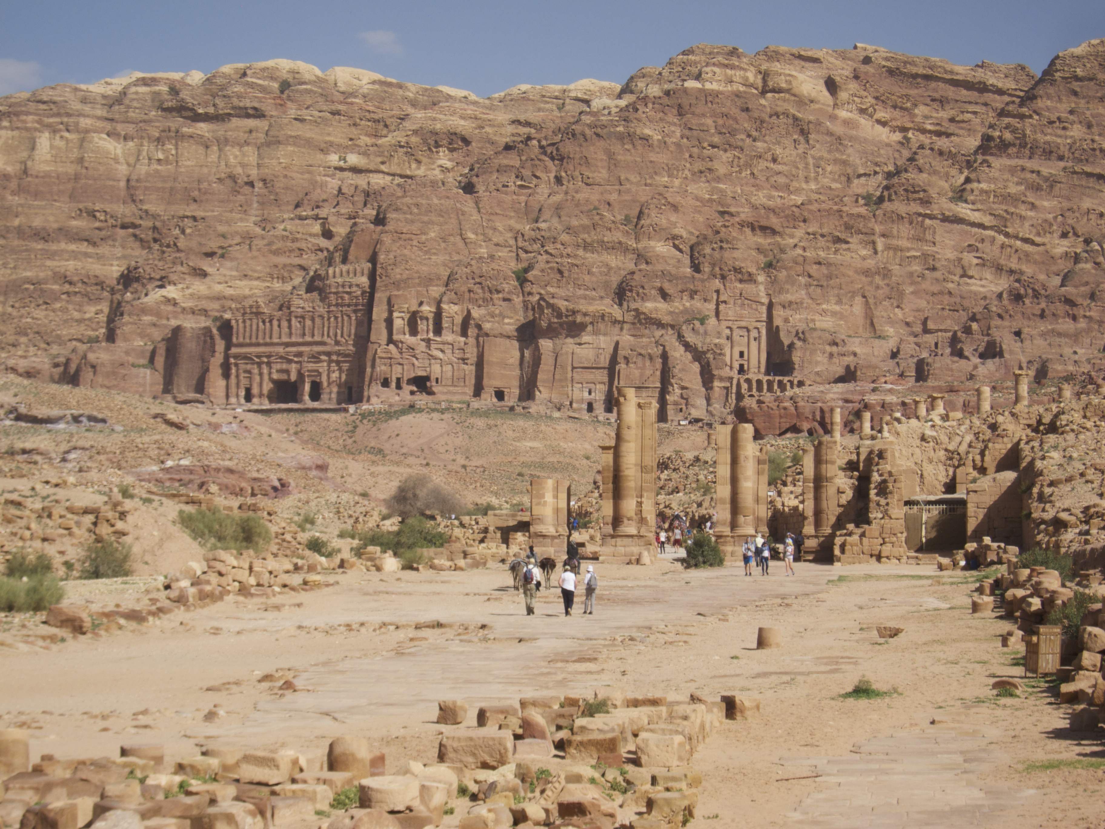 Petra Jordan